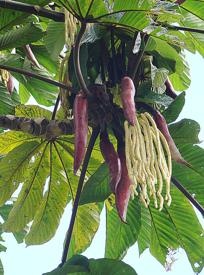 Photo from above the town of Boquete, western Panama. Some refer to this highland dwelling form as C. polyphlebia. In context at